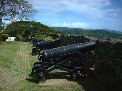 This is a picture of the British Artillery on display at Fort George. I took the image myself, using my own camera on Jan. 7, 2011.